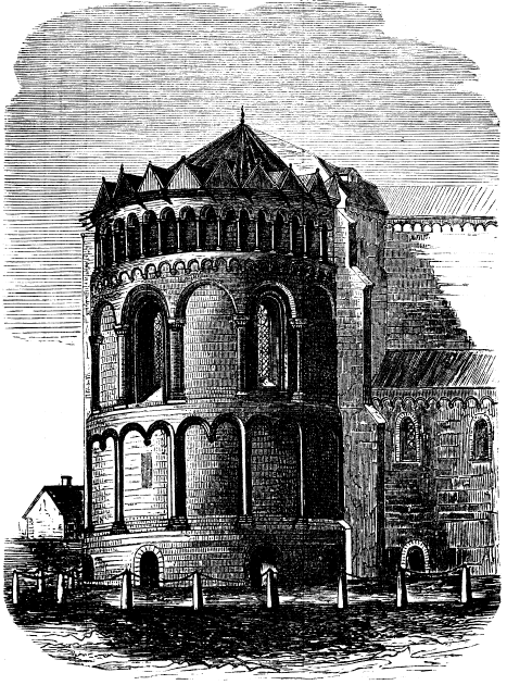 Lunds domkyrka from Swedish Family Journal 1866.